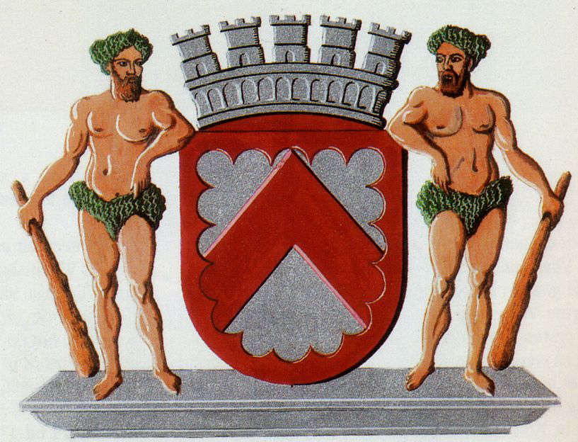 Belgium, Kortrijk, city emblem, Coat of arms